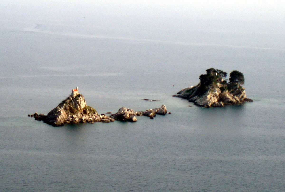 Islands near Petrovac (Montenegro, Adriatic Sea).